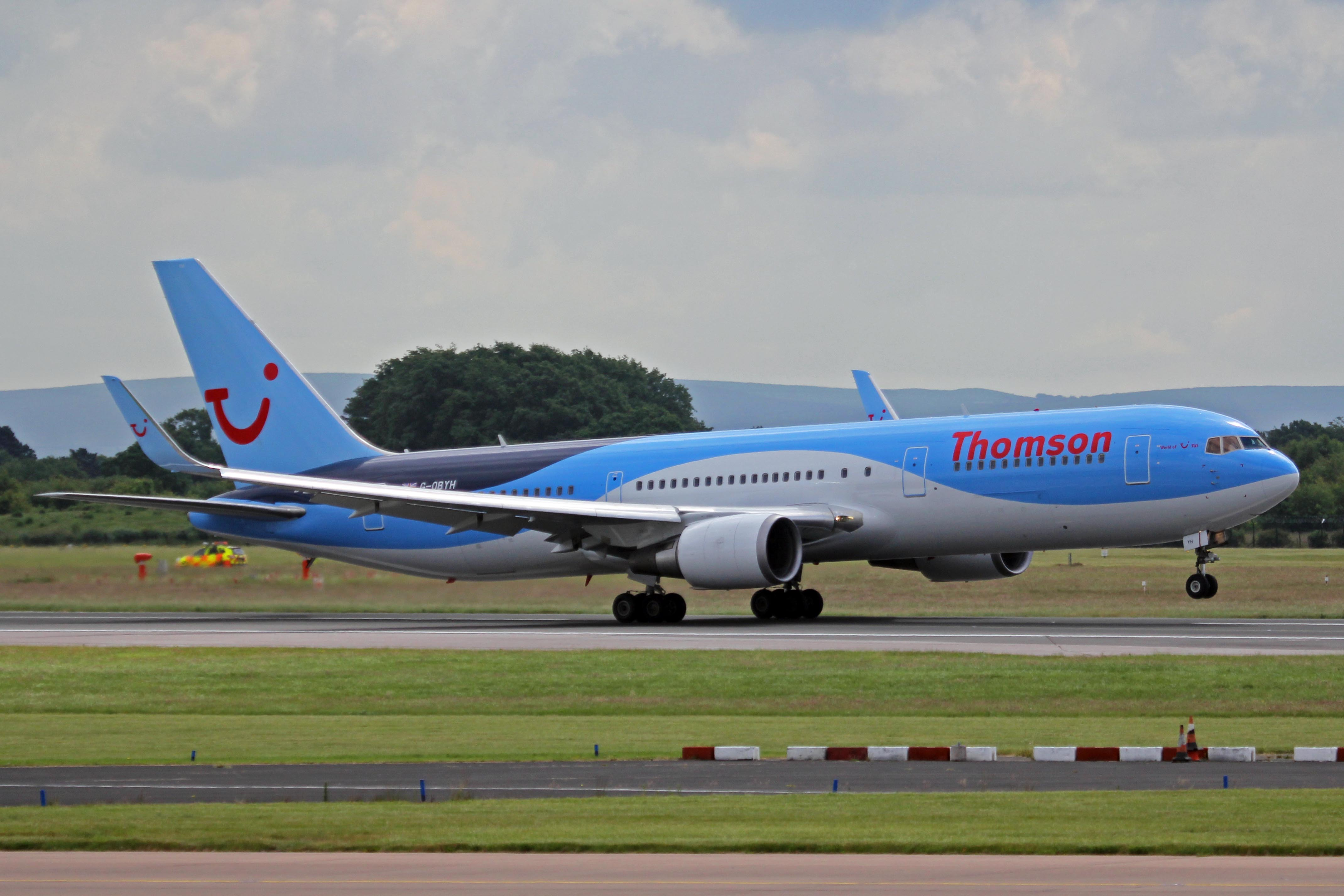 In new 'Dreamliner' style c/scheme.